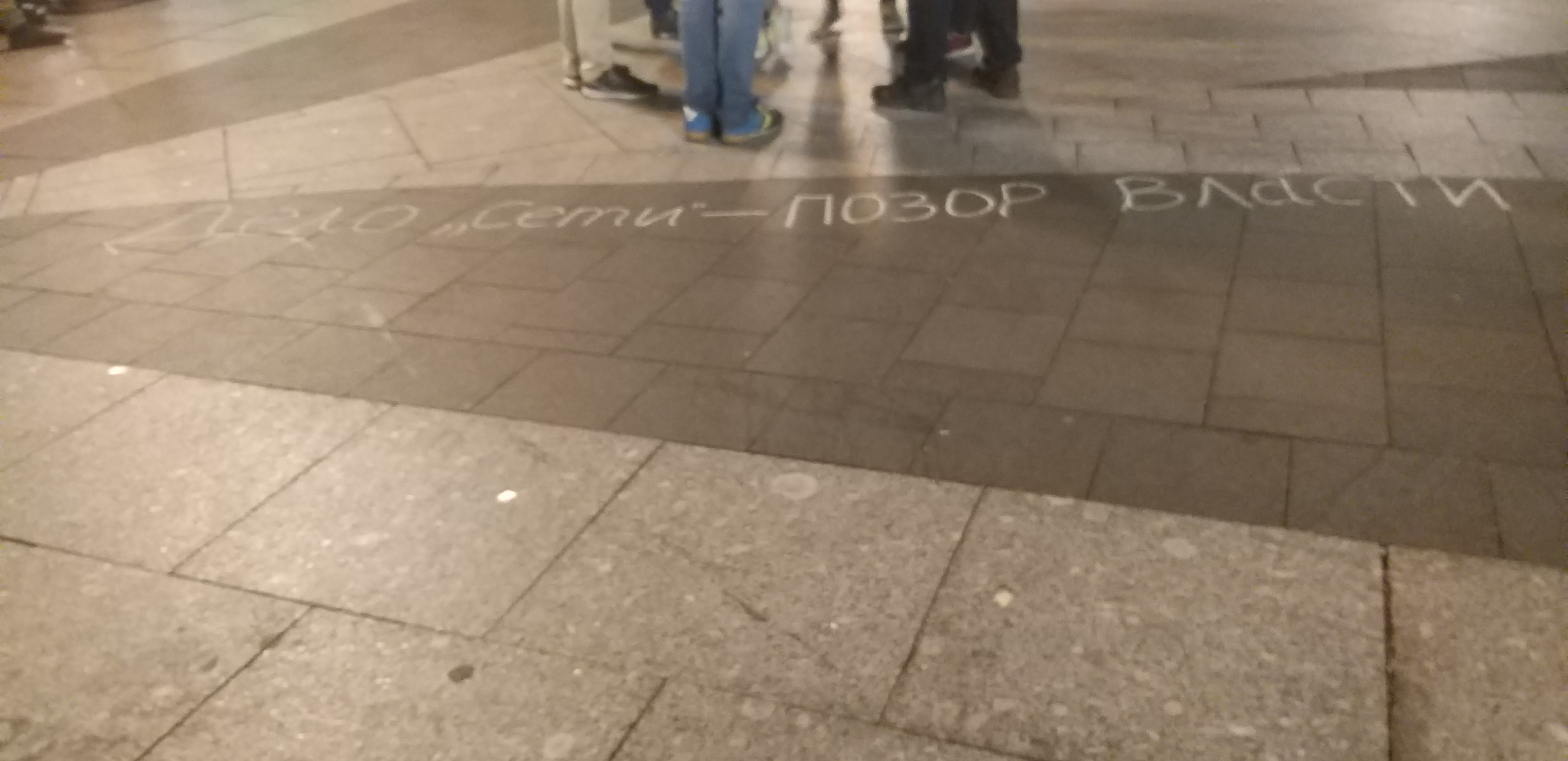 Bessrocka sxod.